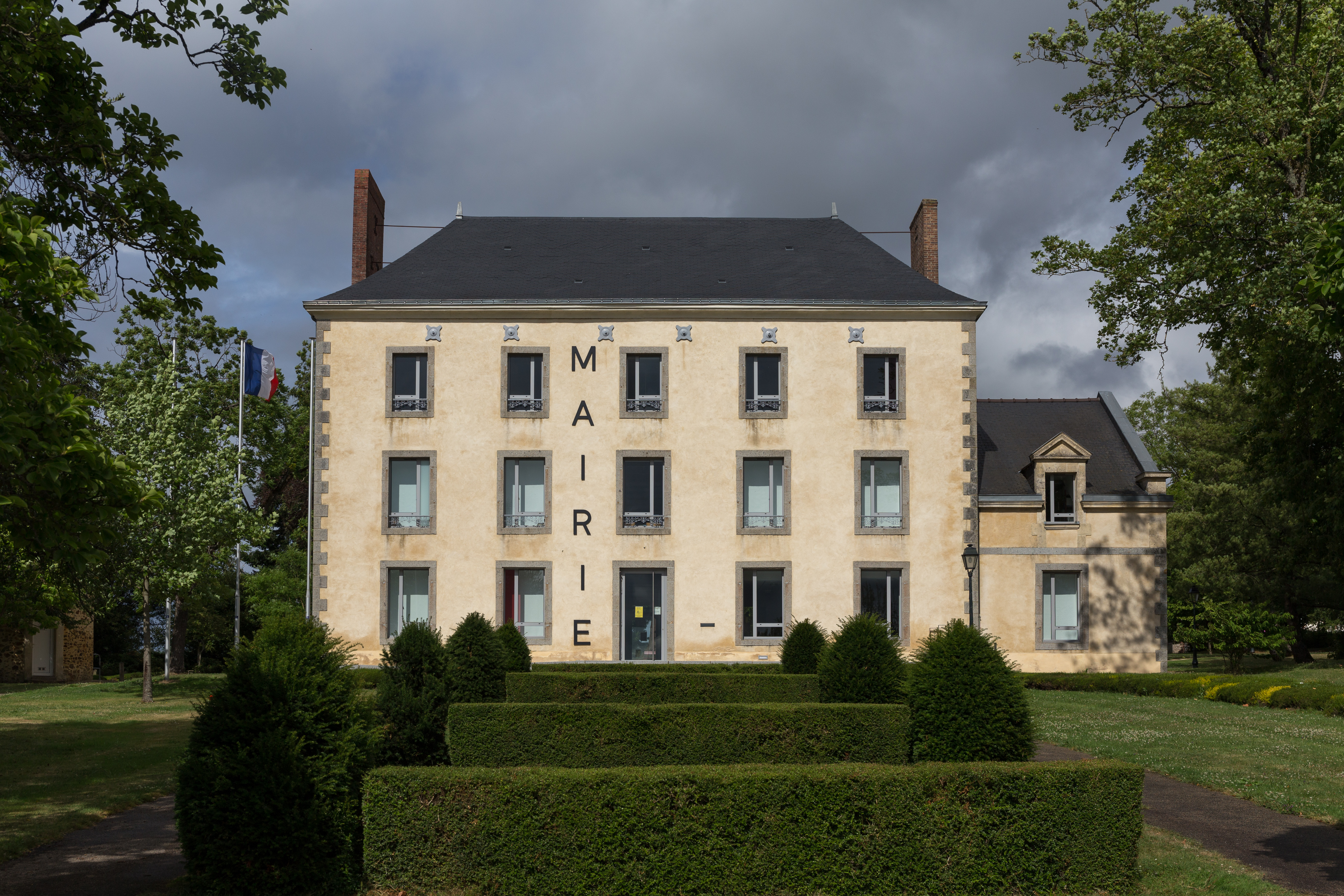 Town hall of Port-Brillet.